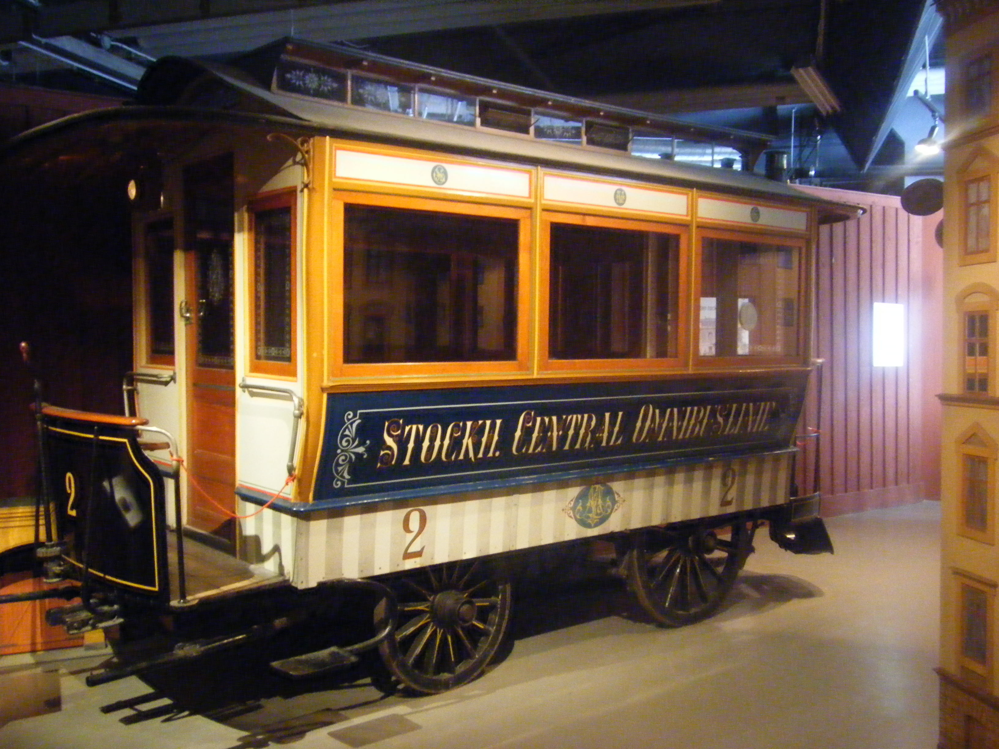 Spårvägsmuseet in Stockholm